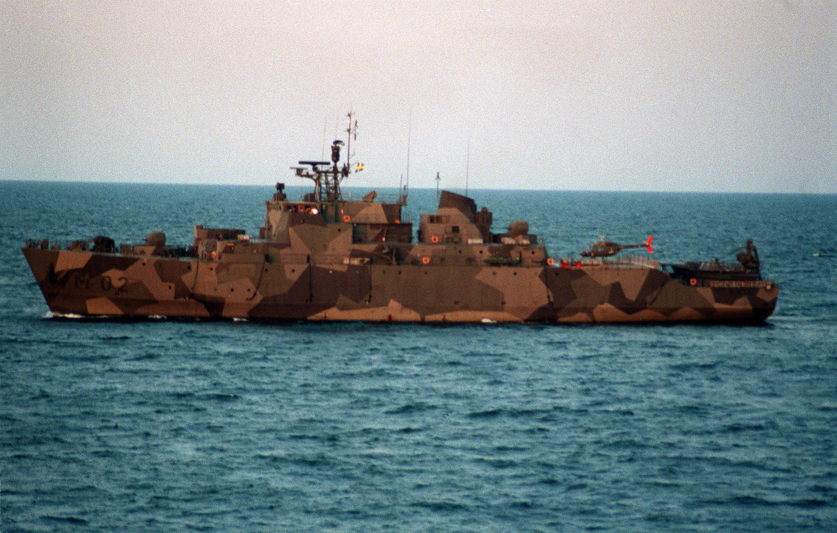 A port beam view of the Swedish navy minelayer ALVSBORG (M-02) during exercise BALTOPS '93.